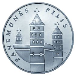 50 Litas coin dedicated to the Panemune Castle (from the series "Historical and Architectural monuments of Lithuania") Silver Ag 925 Quality proof Diameter 38.61 mm Weight 28.28 g The words on the edge of the coin: HISTORICAL AND ARCHITECTURAL MONUMENTS Designed by Saulius Juozas Jarasius Mintage 5,000 pcs Issue 2007